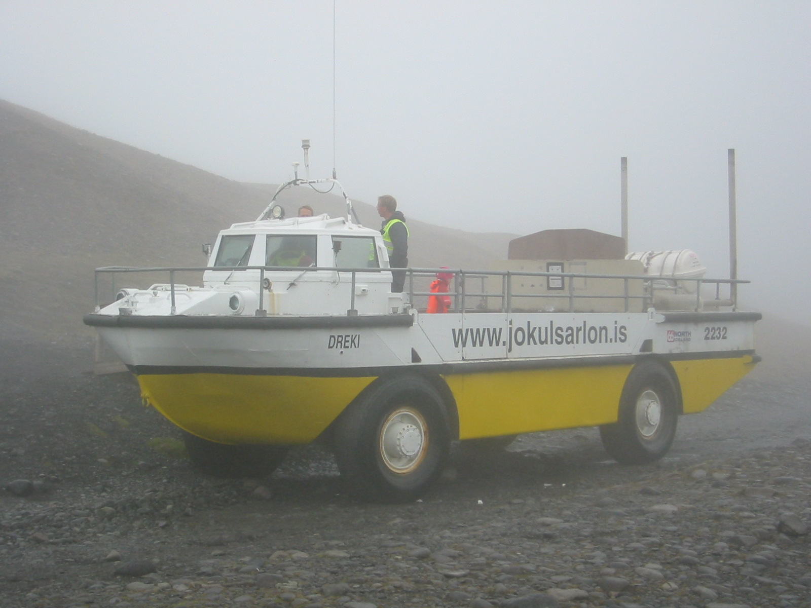 On Iceland. Usable with attribution and link to